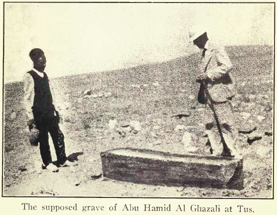 The grave believed to belong to Ghazali.